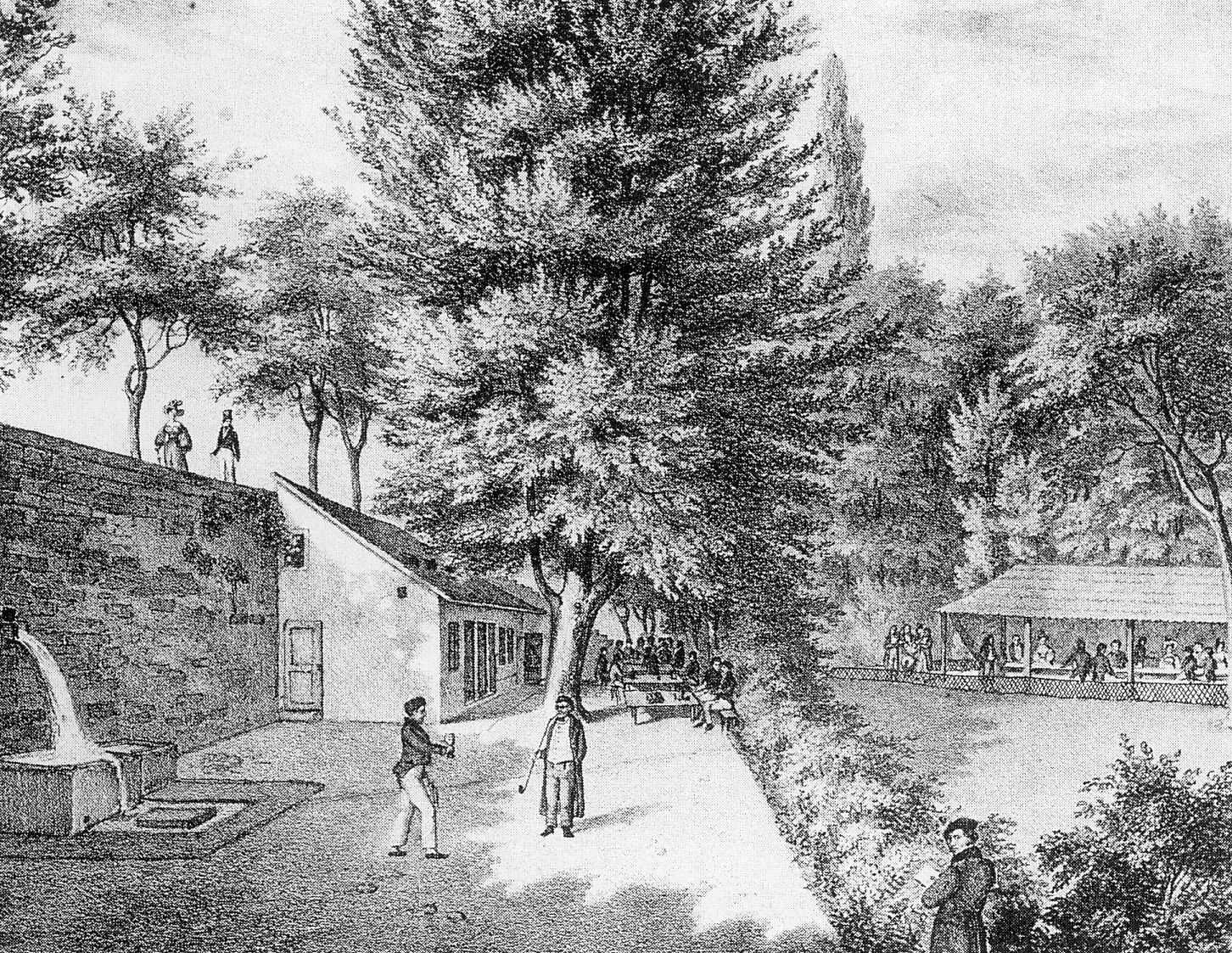 historic drawing of Heidelbergs Hortus Palatinus